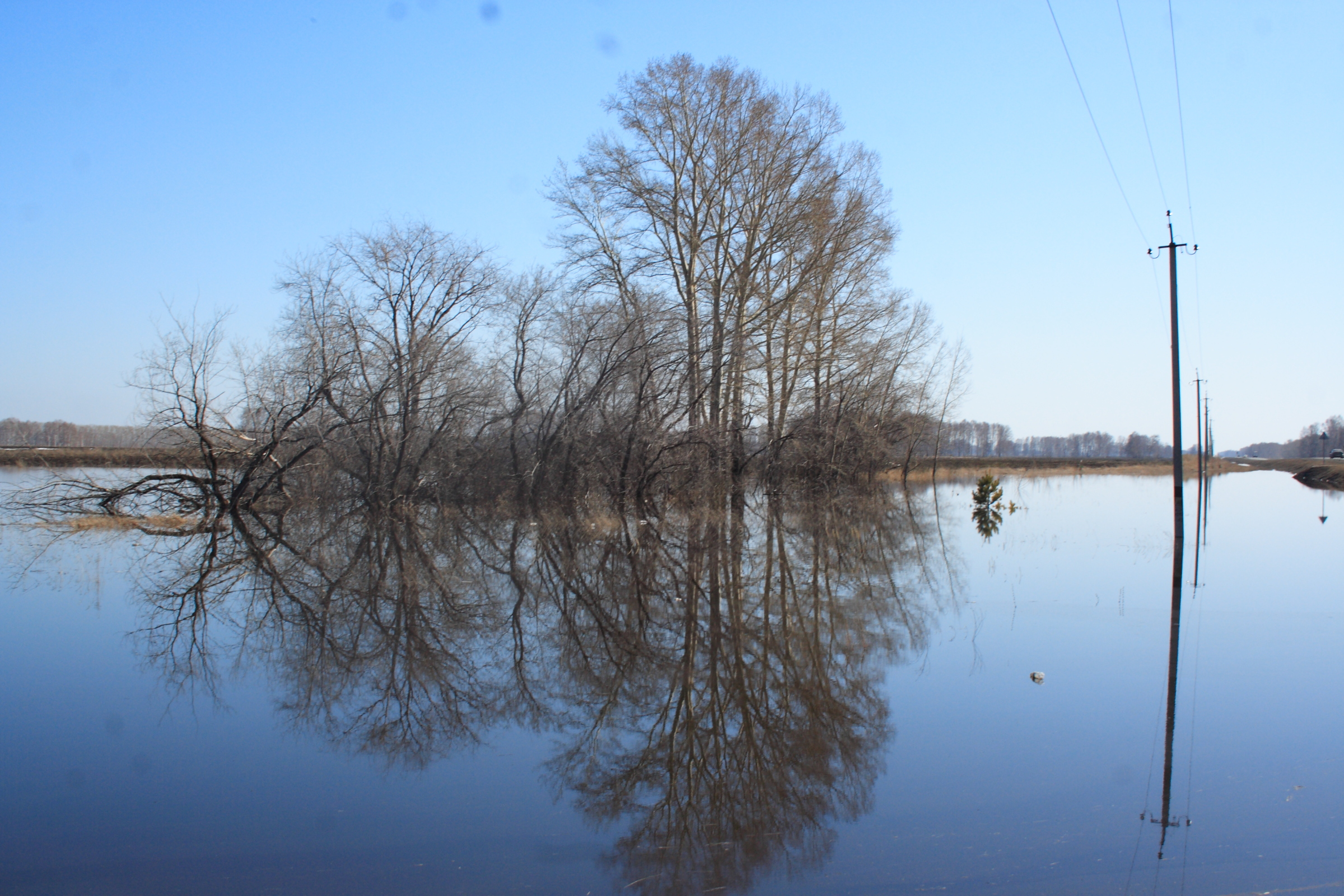 Spring in Talmensky District of Altay kray.